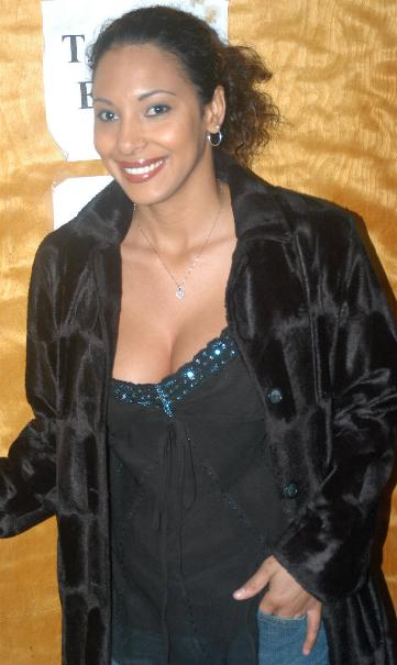 Pornographic actress Dee at the KSEXradio Listener Choice Awards 2005.